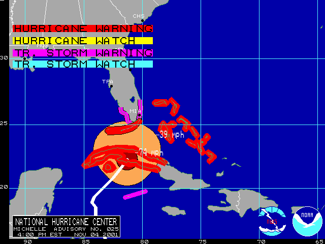 Warnings and watches associated with Hurricane Michelle as of the 25th advisory on November 4, 2001.